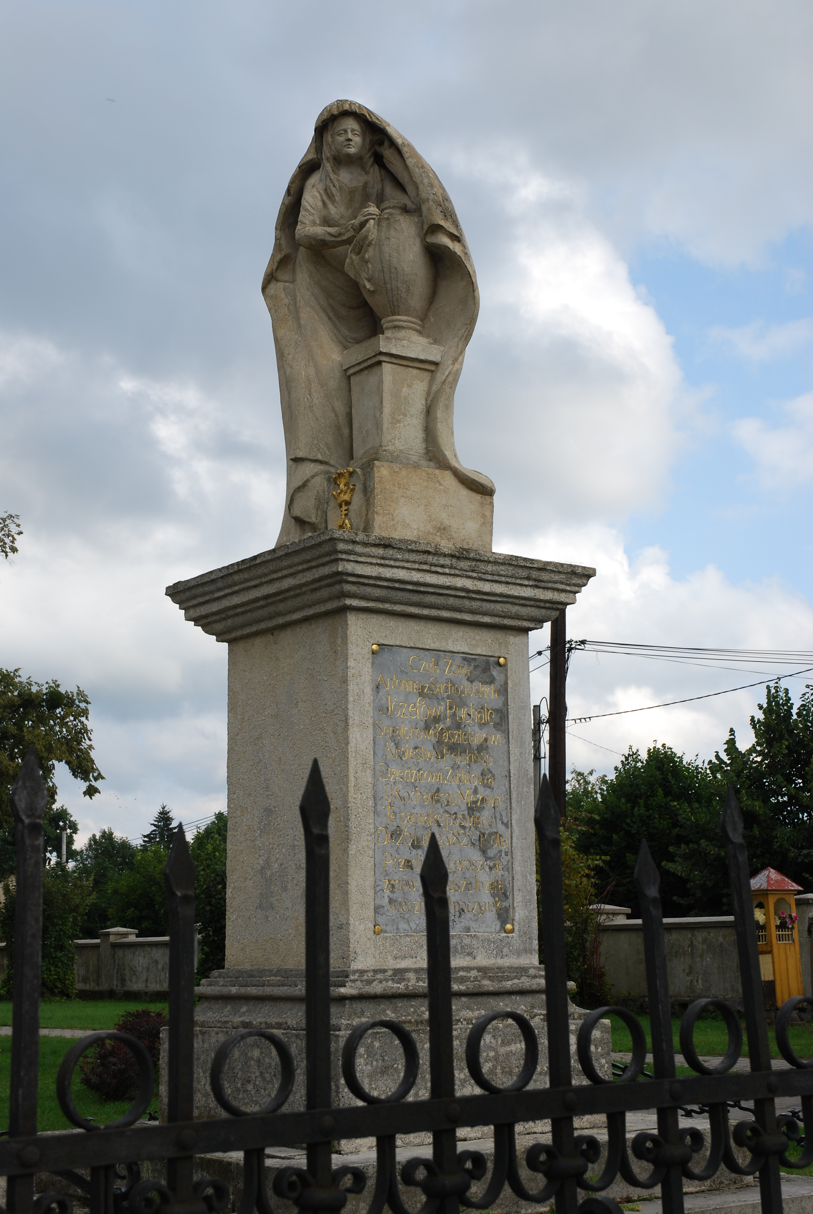 Statue in Zaklików